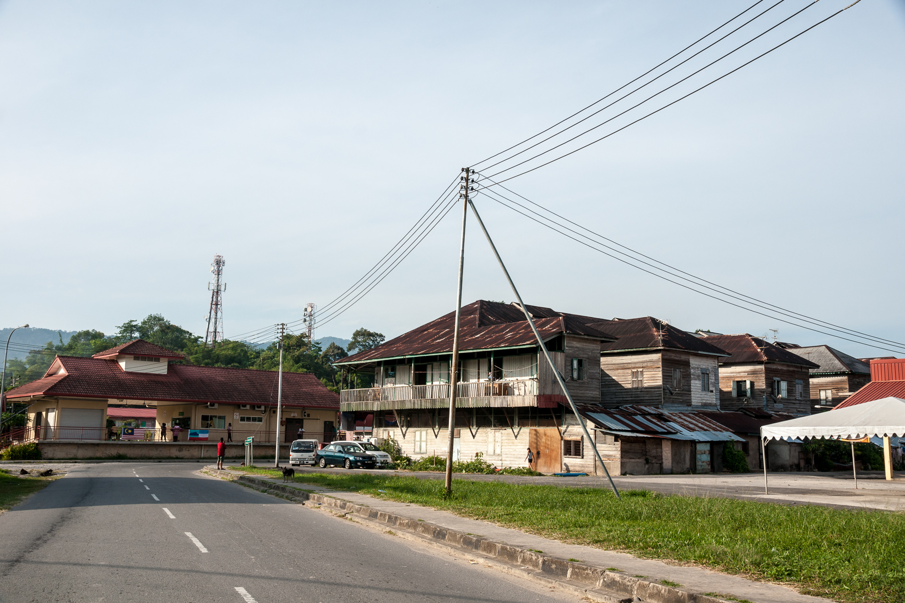 Kinarut, Sabah: Old shop row and the railway station